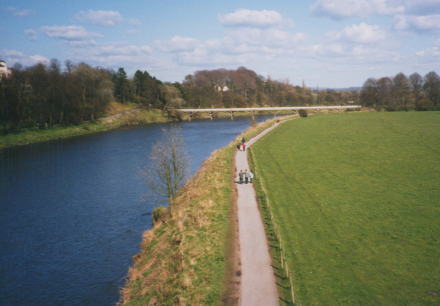 The River Ribble at Preston, Lancashire, with the "Tramway Bridge" in the distance